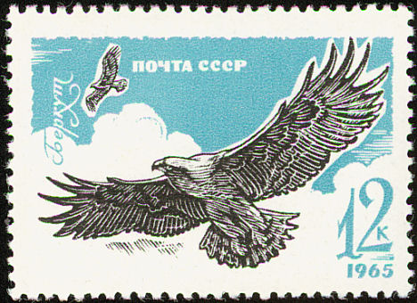 USSR stamp, Golden eagle(Aquila chrysaetos), 1965, 12 k.